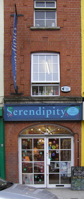 Serendipity, Omagh. This gift shop is located in Bridge Street, there is a coffee shop on the first floor